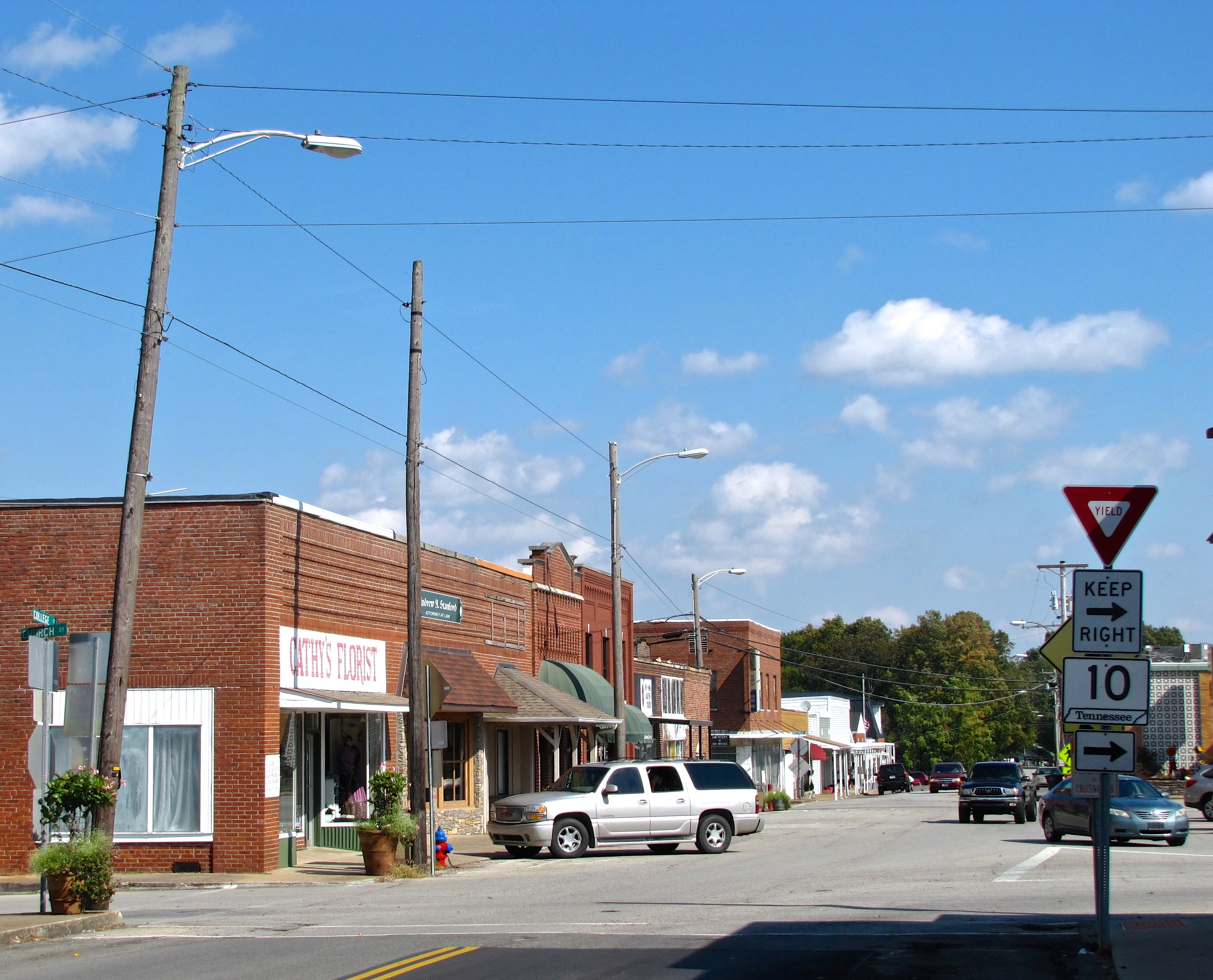 Buildings along the northwestern portion of the courthouse square in Lafayette, Tennessee, United States.